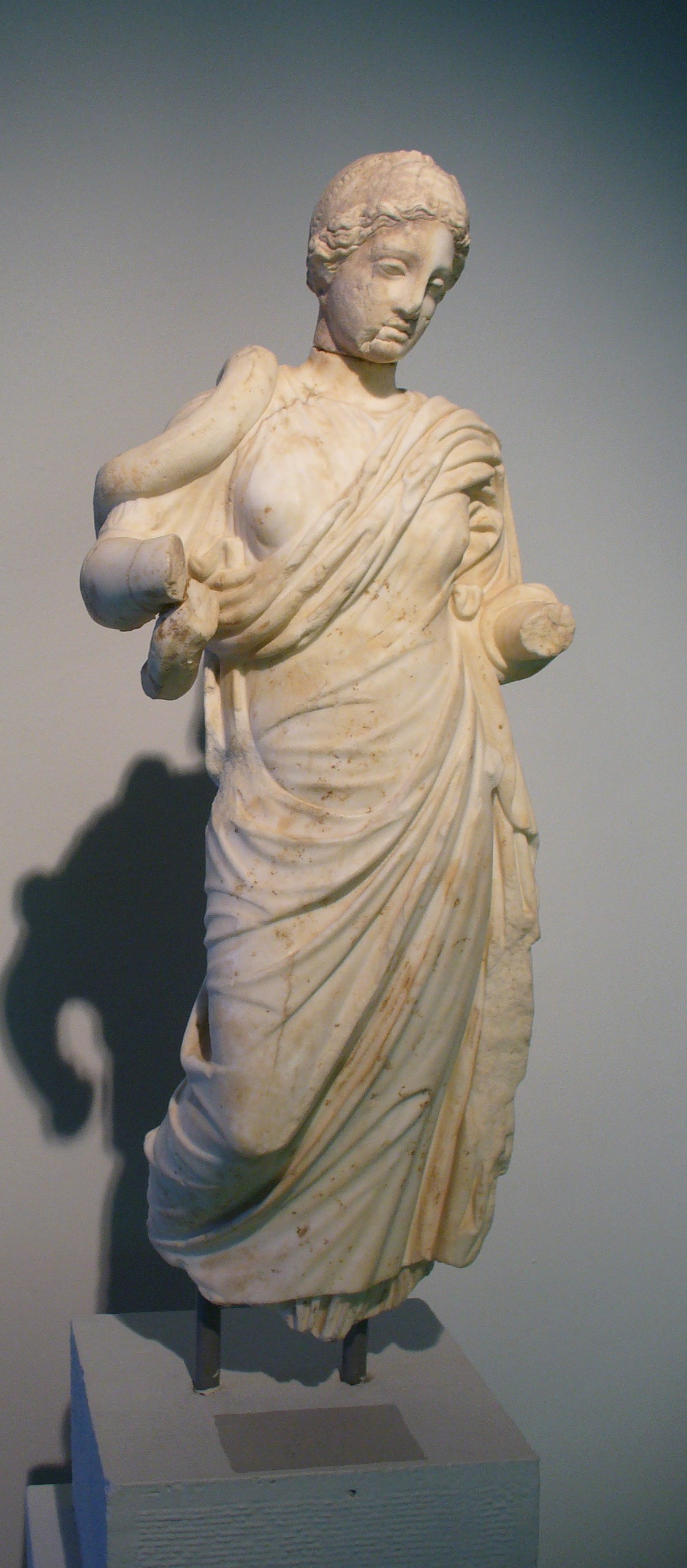 A cult statue of Hygieia from the 1st century CE, found at the sanctuary of Asklepios at Dion. It's now at the Dion site museum.